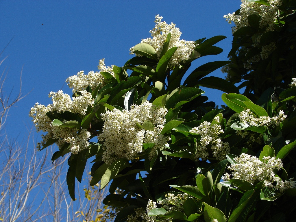 Flindersia bennettiana "Bennett's Ash". Spectacular blooming tree found in the park. Location: Brisbane, Australia Native to Australian rainforest Family: Rutaceae ID credit : Tony Rodd and Kris Kursch